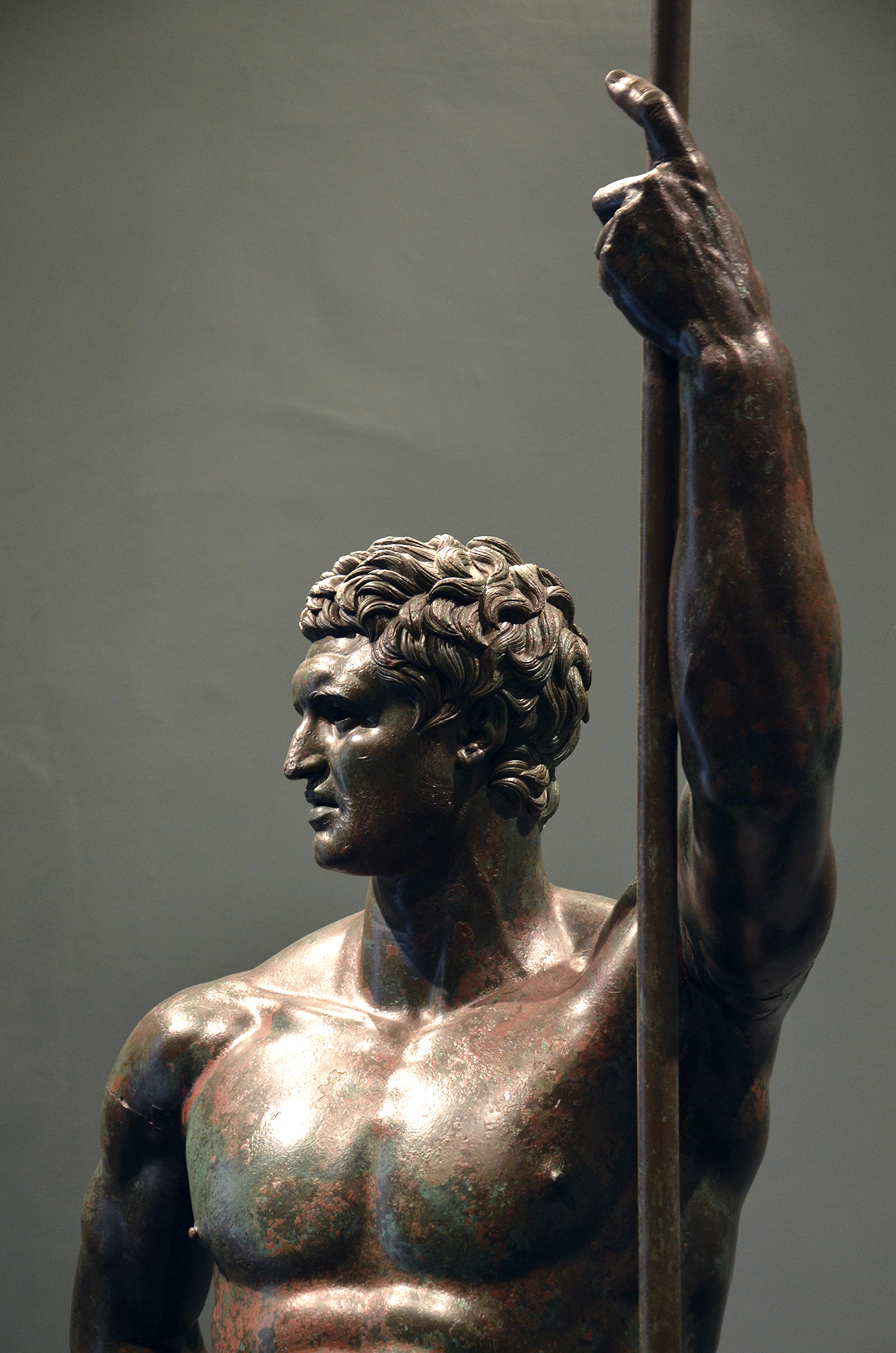 Bronze statue of a Hellenistic prince, 1st half of 2nd century BC, found on the Quirinal in Rome, Palazzo Massimo alle Terme, Rome